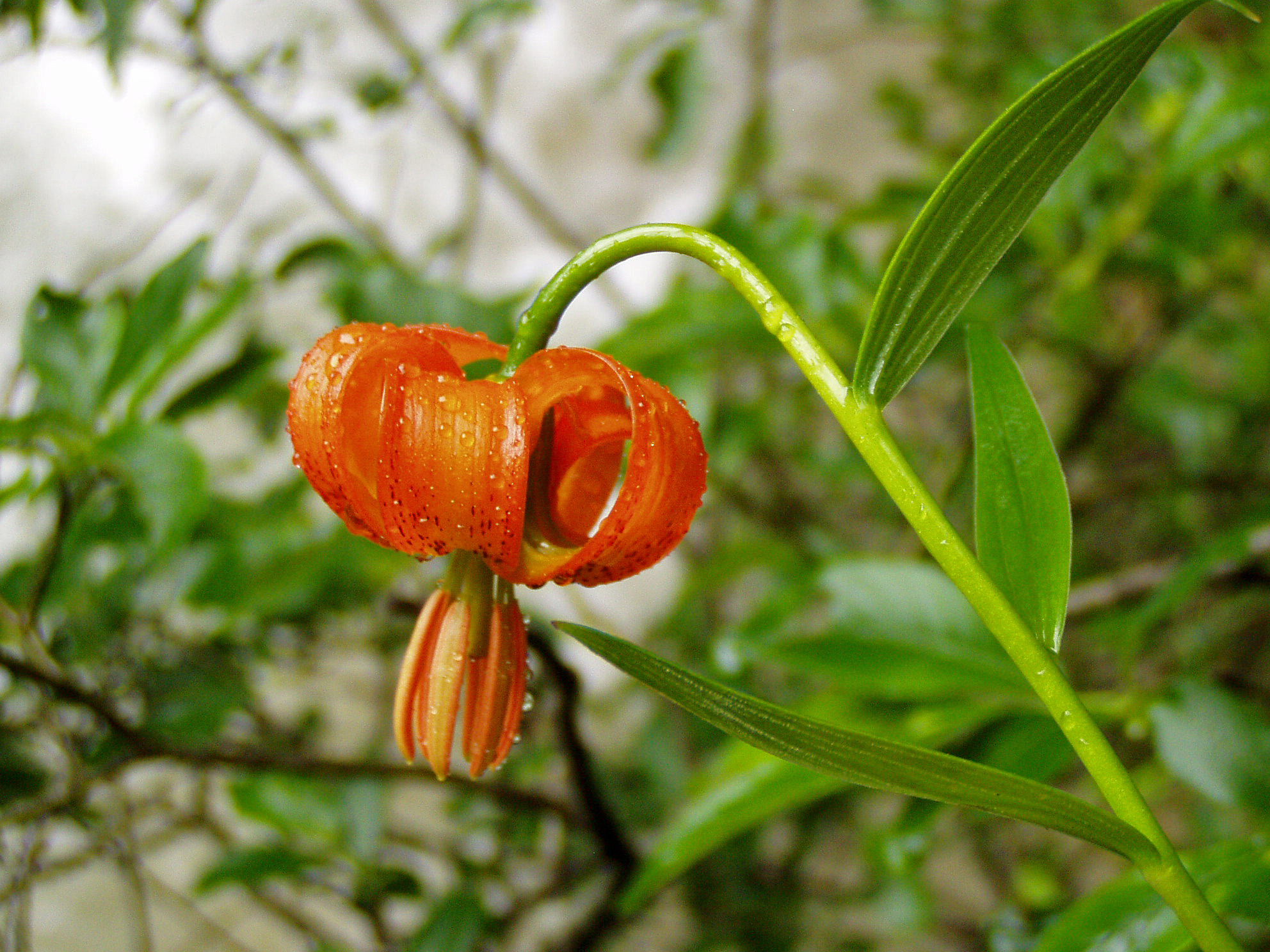 Please report references to kulacgmx.at.